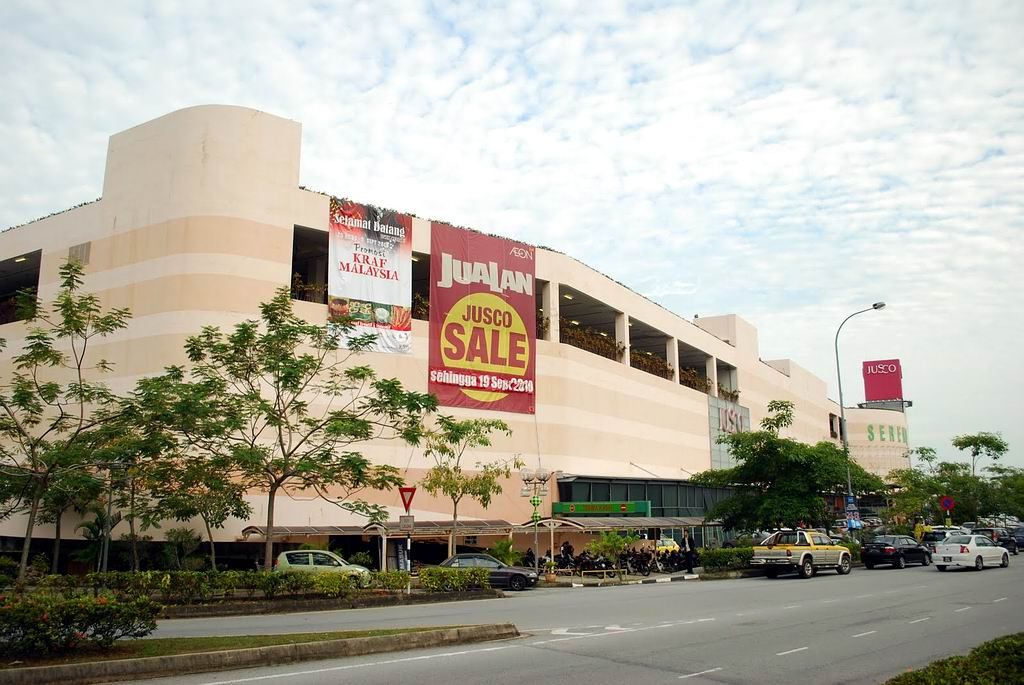 Jusco shopping mall in Seremban